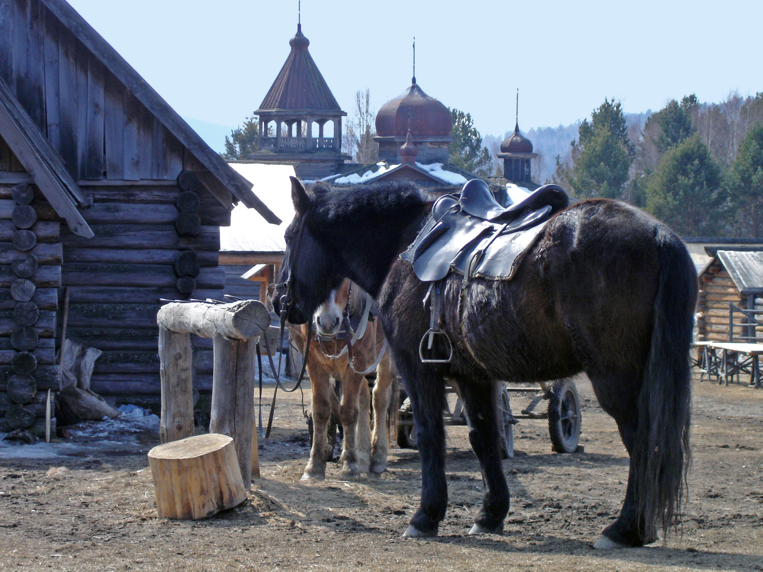 Open Air Museum Talzy close to Lake Baikal